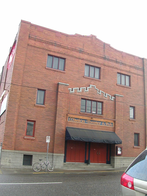 The McMenamin's Mission Theater and Pub in Portland, Oregon.